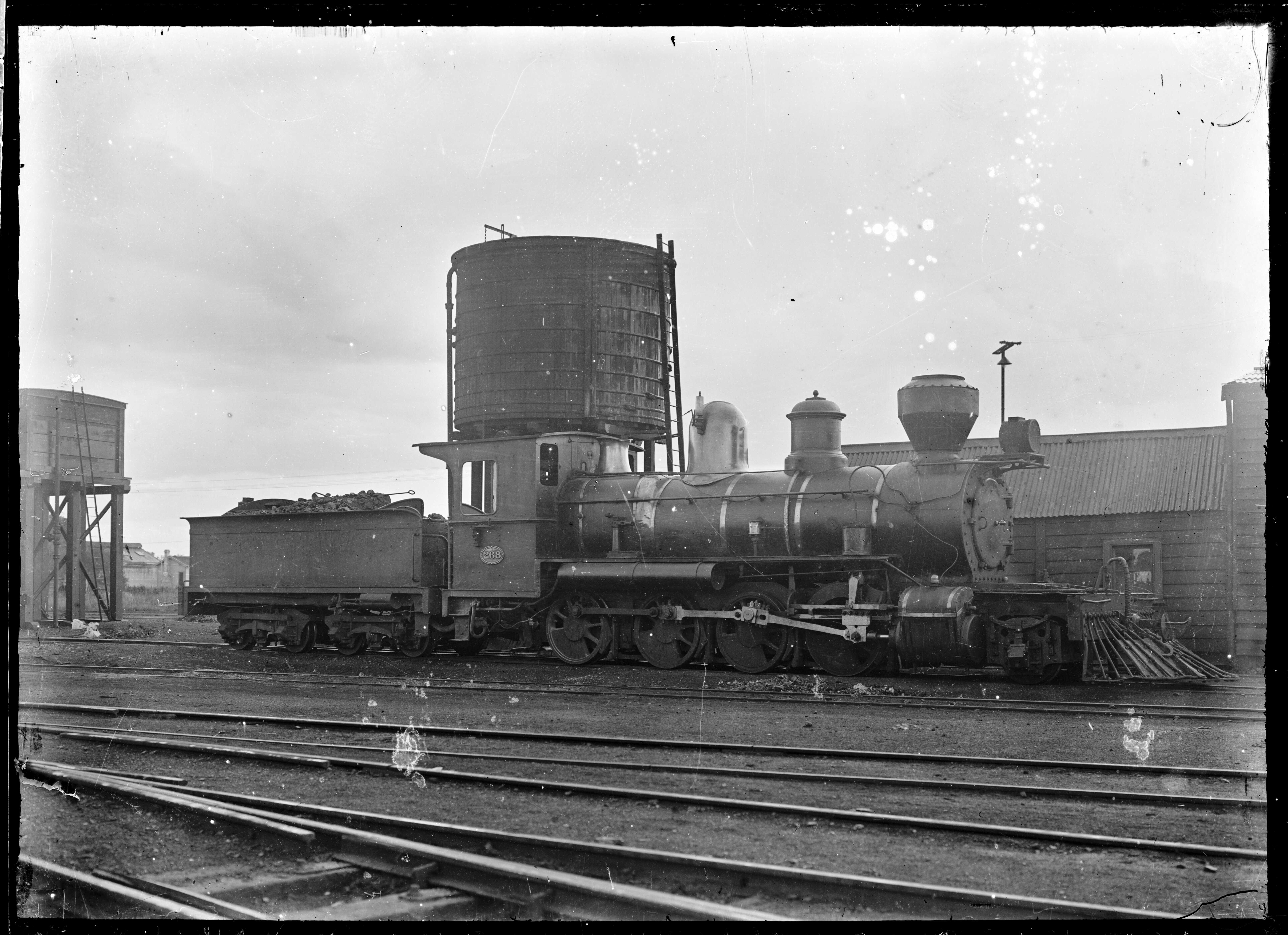 Steam locomotive 268, P class, type 2-8-0, with a steel cab, beside a water tank at Frankton. Photograph taken by Albert Percy Godber.